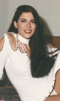 Victoria Andrews